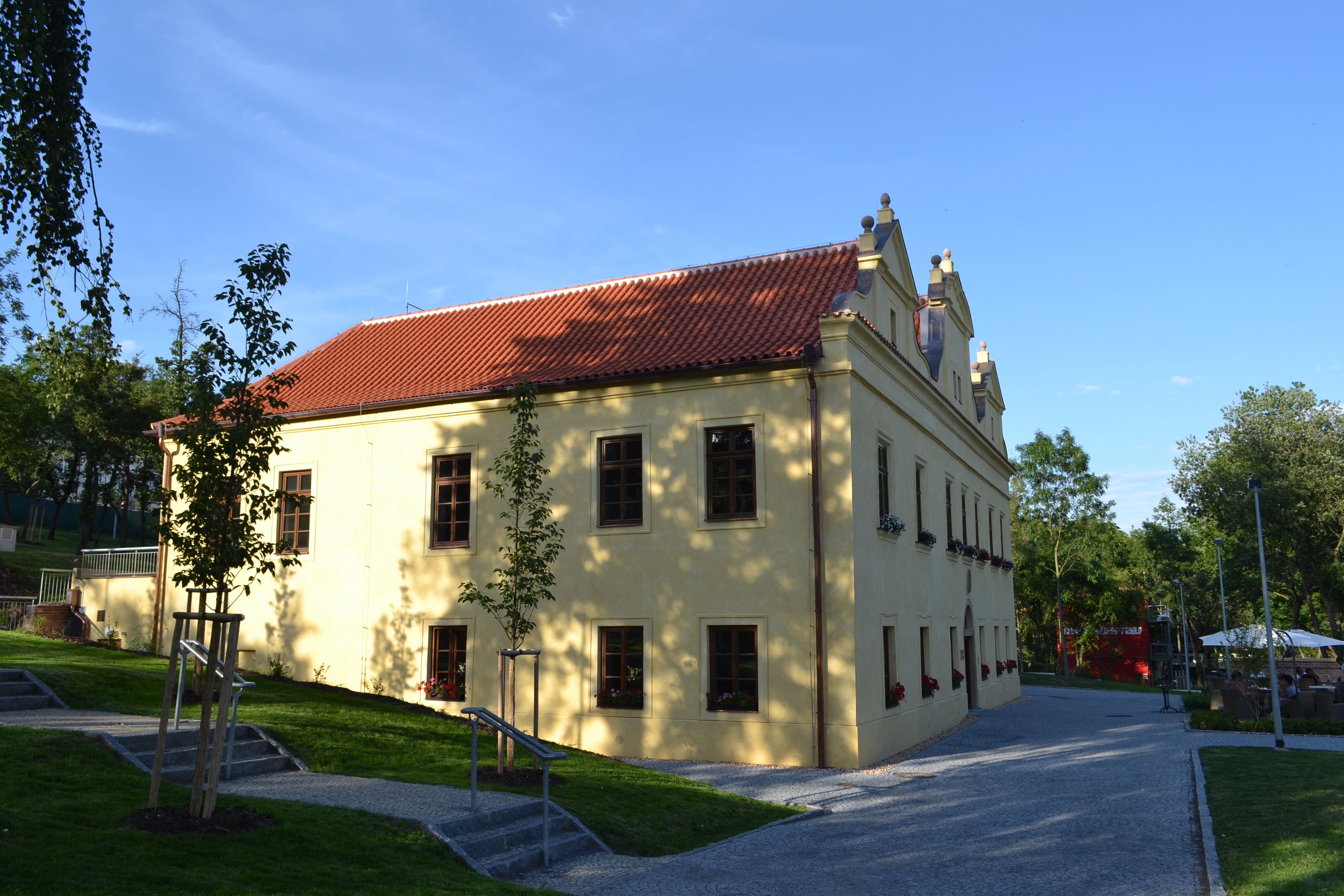 Villa Kajetánka after reconstruction, Prague, Czech Republic.